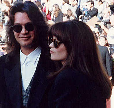 Eddie Van Halen and Valerie Bertinelli on the red carpet at the Emmy Awards 1993